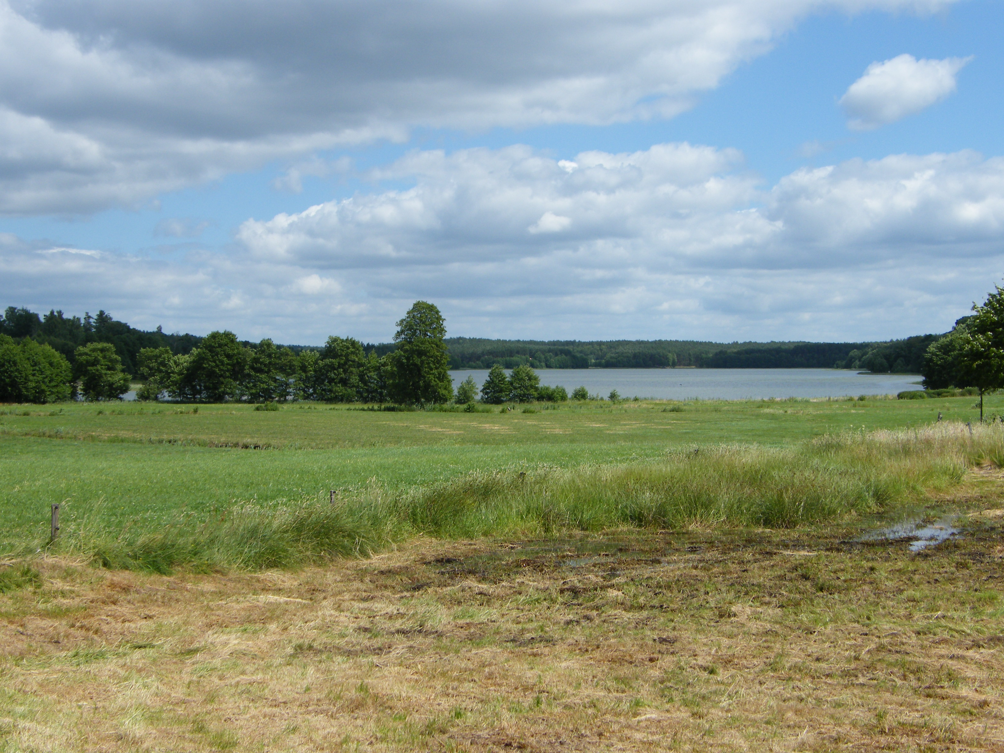 Słupino lake